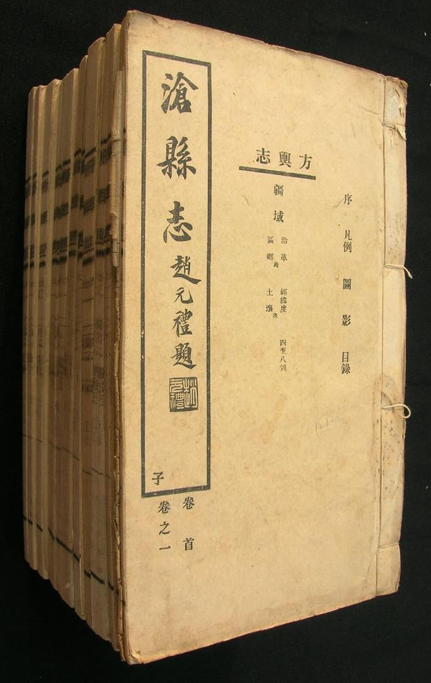 "Cang County records - 沧县志“, published in 1933 in Cangzhou, Hebei province, China.